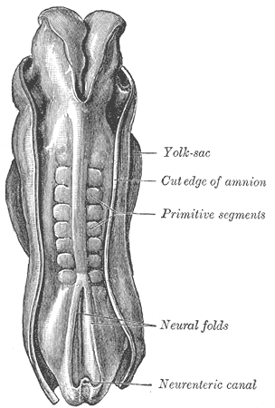 Dorsum of human embryo, 2.11 mm. in length. (After Eternod.)